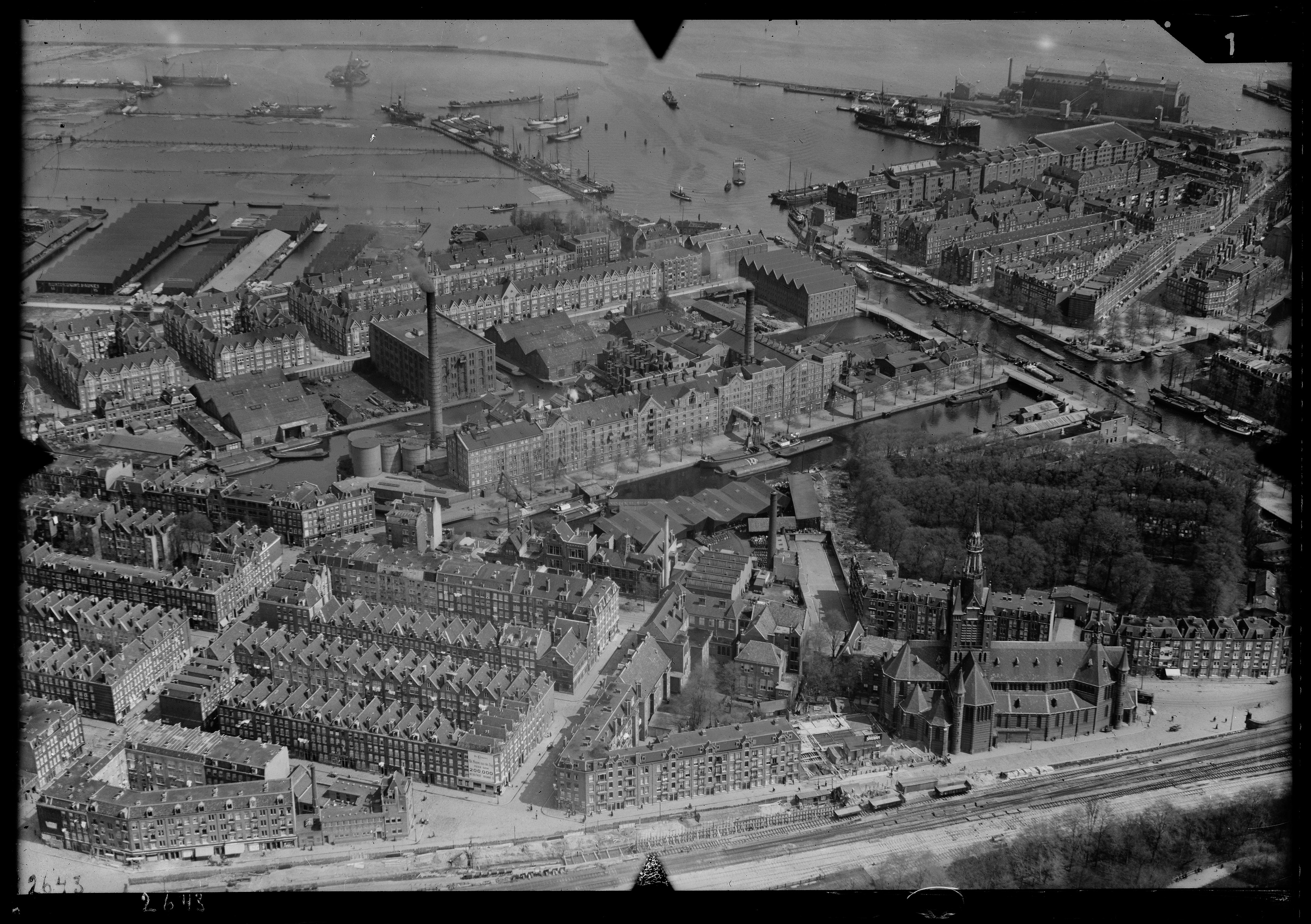 Aerial photograph of Amsterdam, The Netherlands